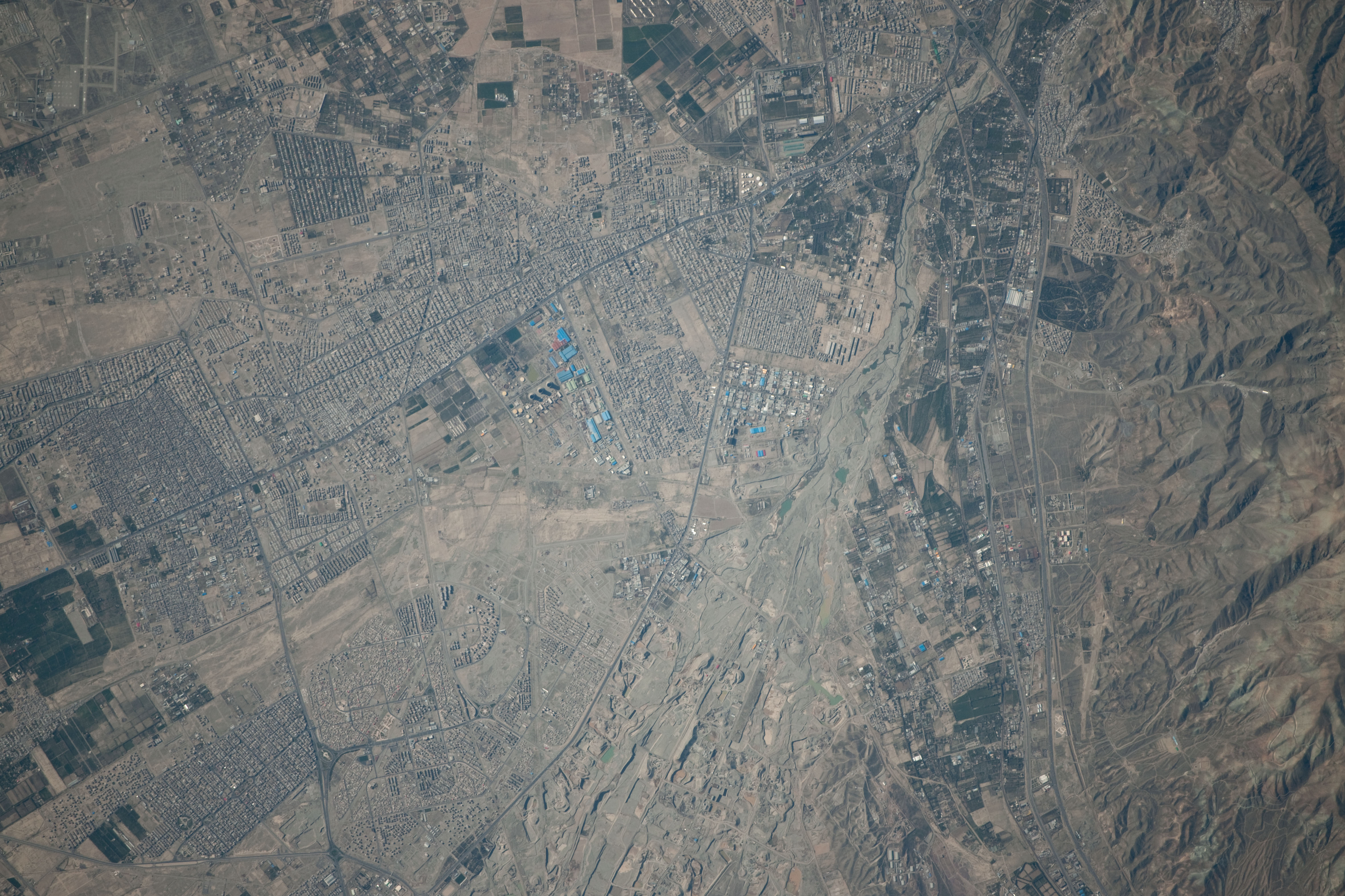 Satellite Photo of City of Karaj, Iran done by ISS023 Astronauts ISS023-E-16560